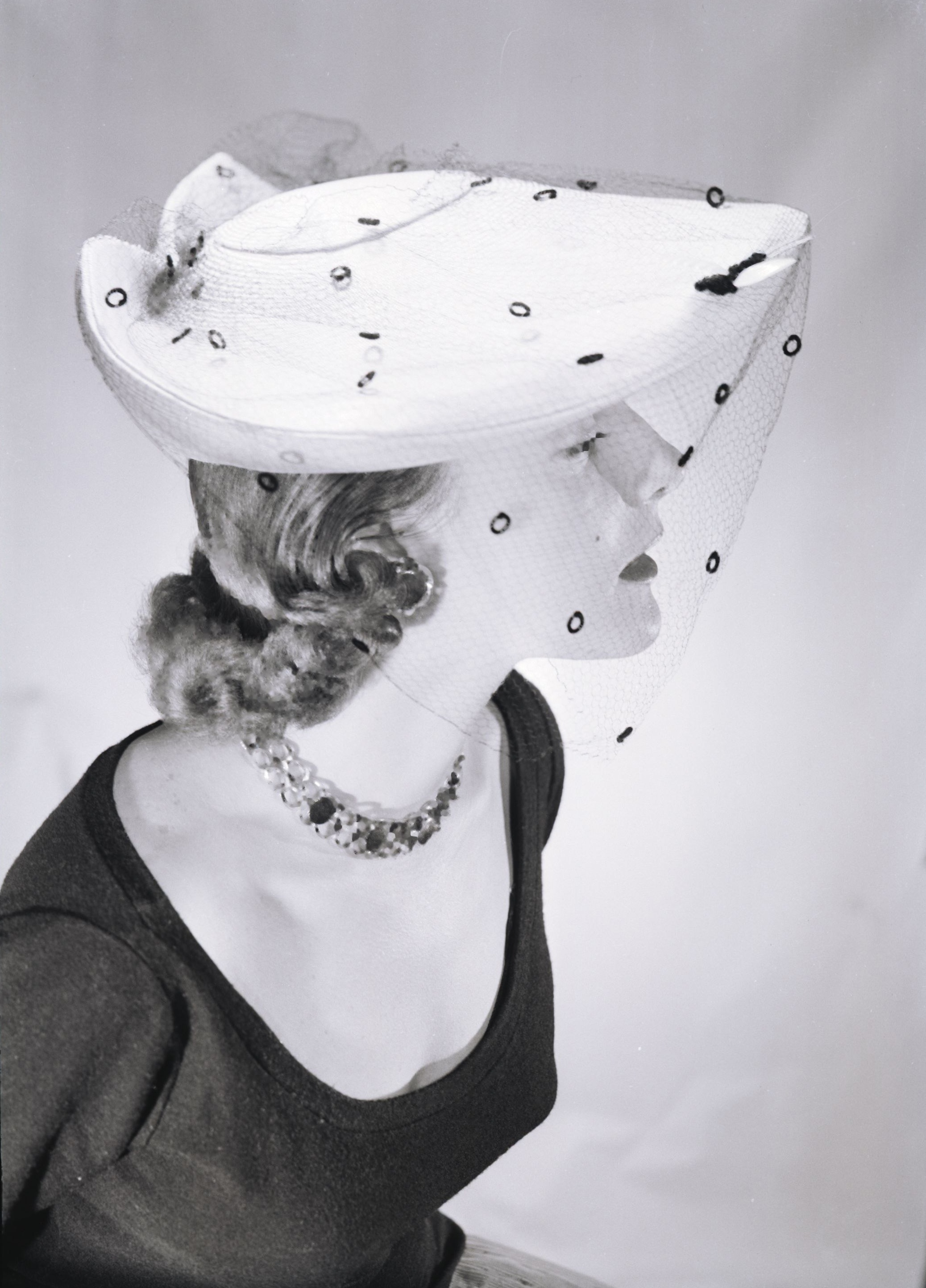 This photo is part of the Australian National Maritime Museum’s Gervais Purcell collection. Gervais Purcell (1919-1999) was a respected Australian commercial photographer who worked from the 1940s with retailers like David Jones and Hordern Bros, radio technology manufacturer Amalgamated Wireless Australasia (AWA), swimwear manufacturer Jantzen, tourism operator Ansett Airways, and cruise ship operators P&O. Gervais’ camera and some of his swimwear fashion photographs were featured in the popular ANMM travelling exhibition Exposed! the story of swimwear of 2009. The photos in this collection are a part of the 3000 images gifted to the Museum by Gervais’ son Leigh Purcell in 2012. If reproduced or distributed, this image should be clearly attributed to the collection of the Australian National Maritime Museum; and not be used for any commercial or for-profit purposes without the permission of the museum. For more information see our Flickr Commons Rights Statement. The Australian National Maritime Museum undertakes research and accepts public comments that enhance the information we hold about images in our collection. If you can identify a person or fashion design, write the details in the Comments box below. Thank you for helping caption this important historical image. Object number: ANMS-1404[217]